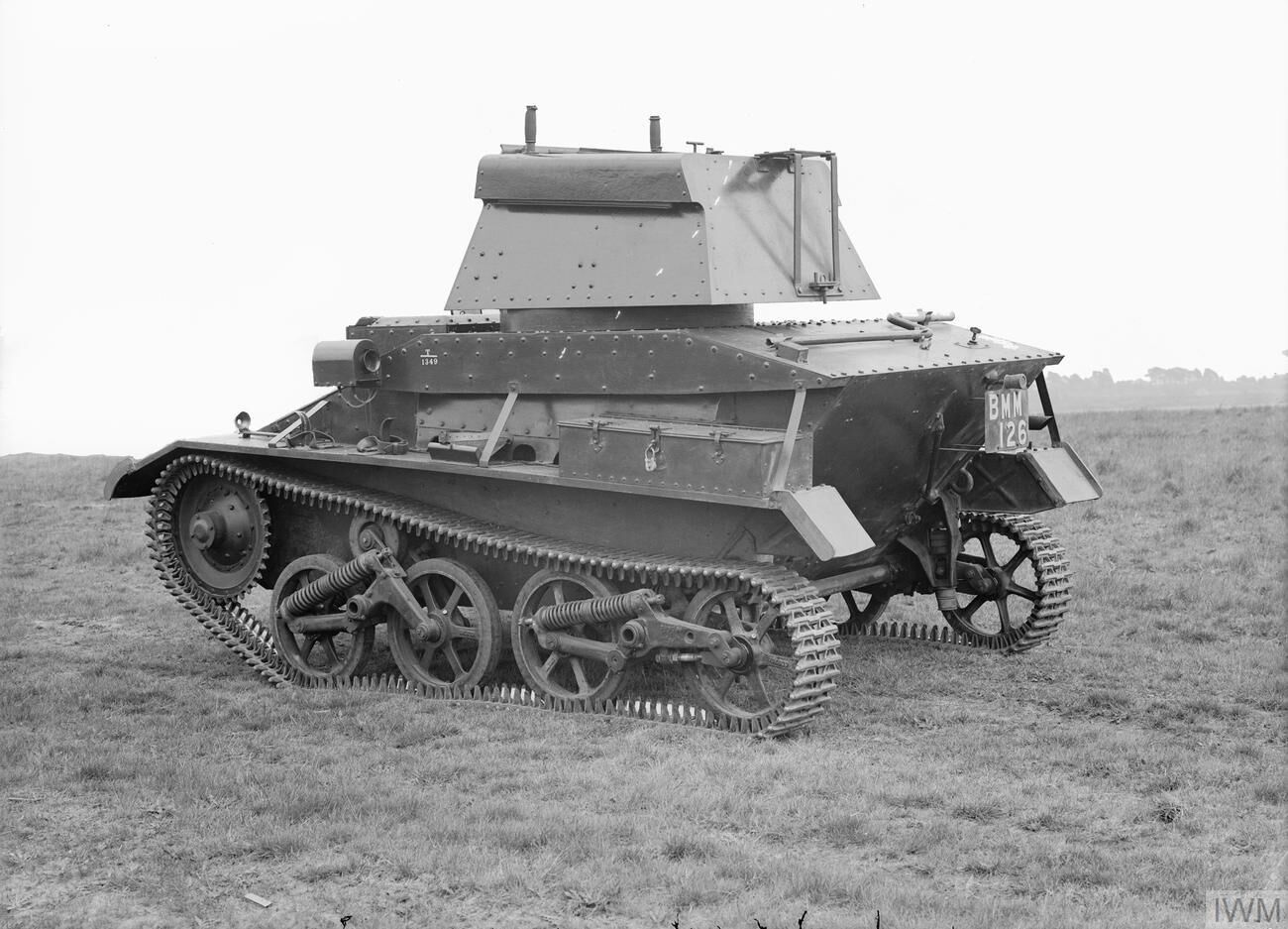 IWM caption : Light Tank Mk IV. FURTHER INFORMATION: This series of light tanks was based on the Vickers Experimental Light Tanks (India Pattern) (A4E19 - A4E20) OF 1933.